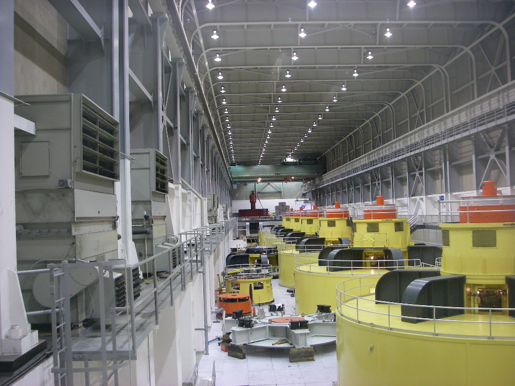 Power plant inside Glen Canyon dam, taken by me